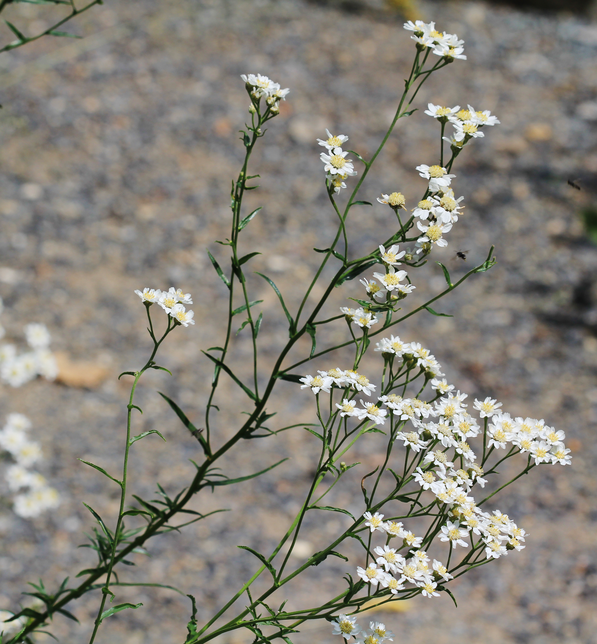 Plant Achillea ptarmica from the Botanical Gardens of Charles University, Prague, Czech Republic